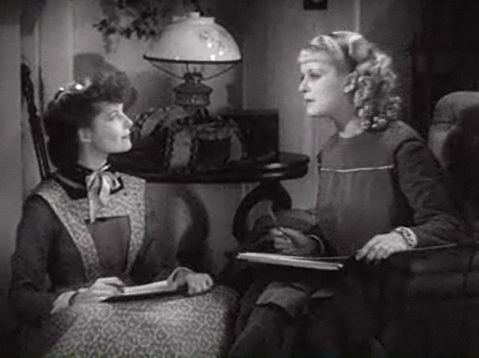 Cropped screenshot of Katharine Hepburn and Joan Bennett from the trailer for the film Little Women